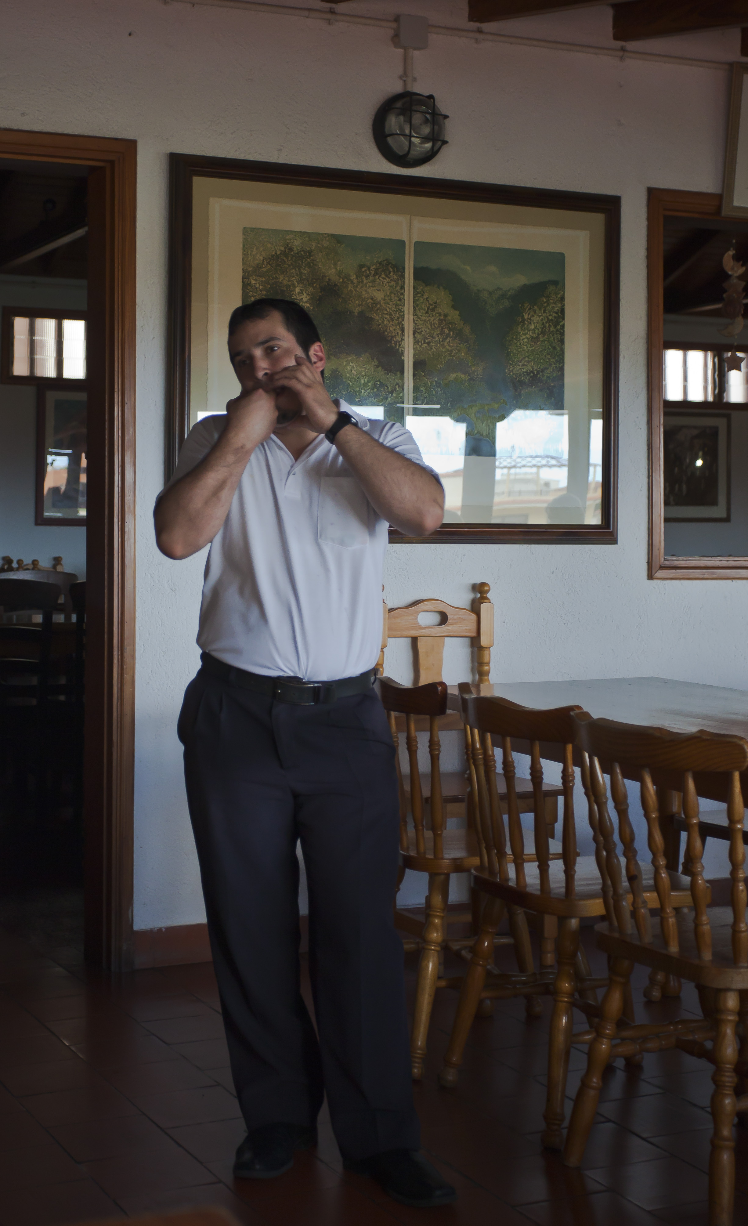 Demostration of gomero whistle, La Gomera, Spain